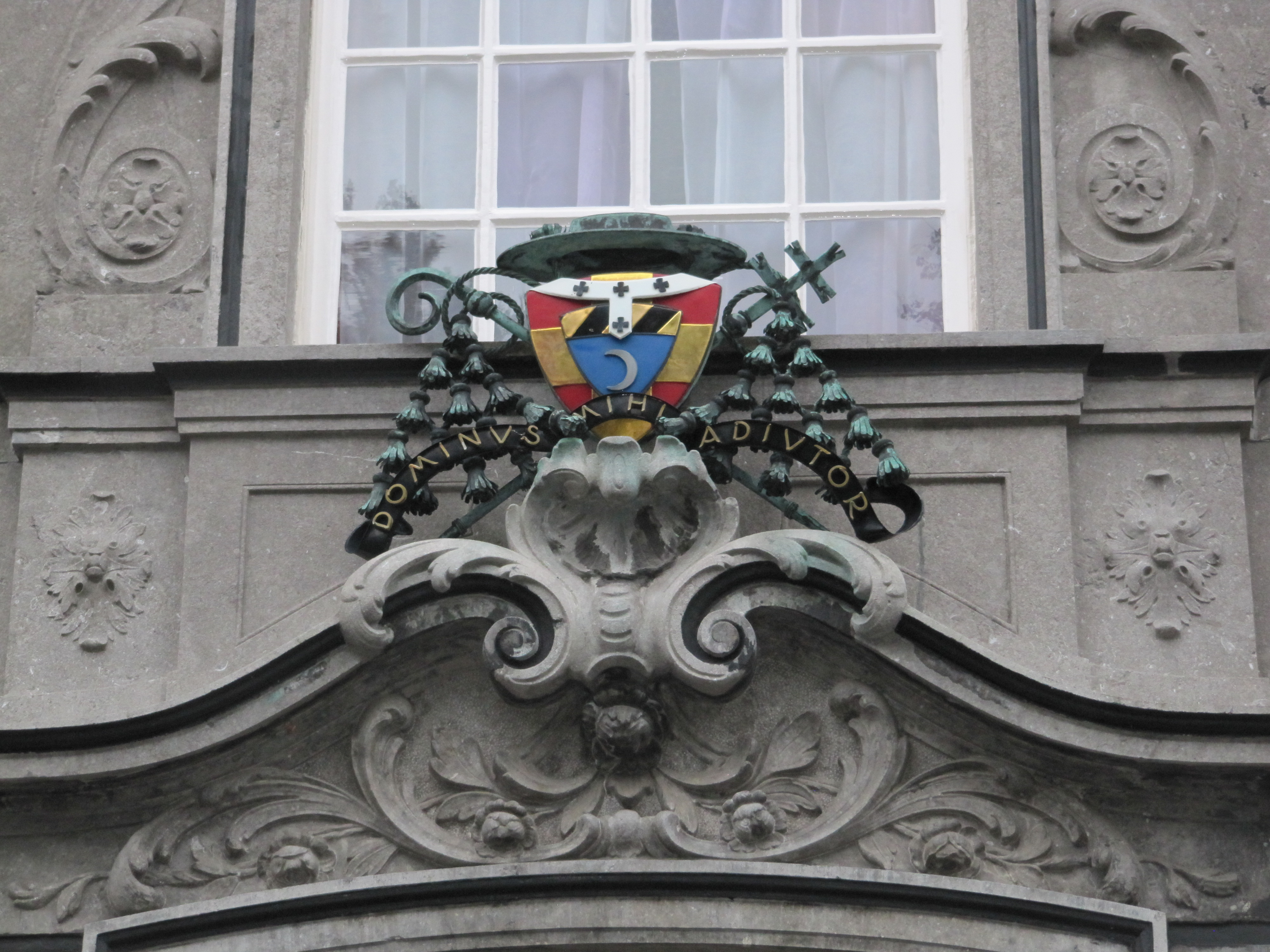 Gable stone of the "Huis met de Paarse Ruiten" (House with the Purple Diamonds) with the arms of Kardinaal de Jong at the Zuidsingel in Amersfoort, The Netherlands